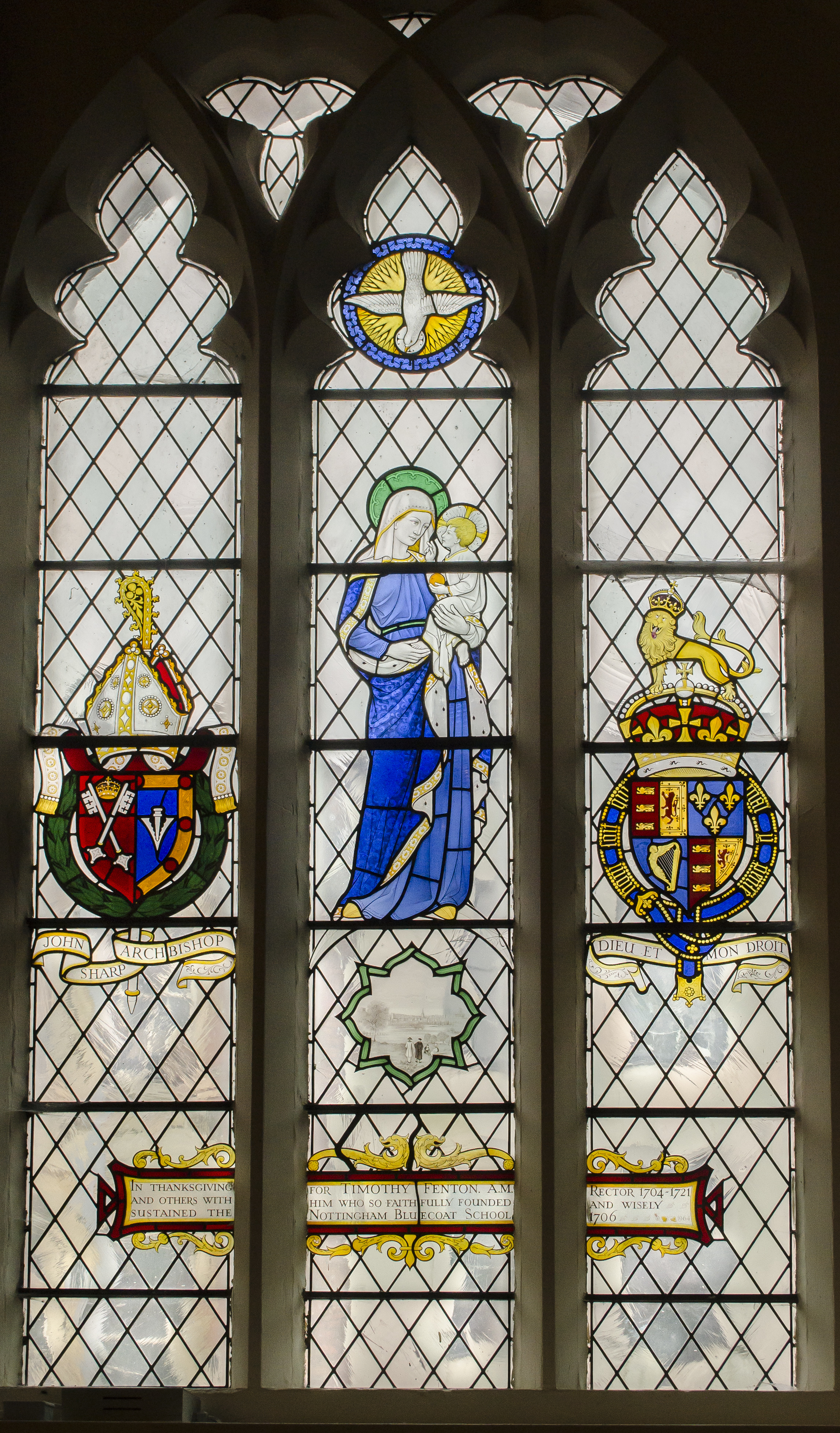 Glass from 1964 erected by John Bucknell, to a design of his uncle Sir Ninian Comper (1864-1960). "IN THANKSGIVING FOR TIMOTHY FENTON, A.M. RECTOR 1704-1721 AND OTHERS WITH HIM WHO SO FAITHFULLY FOUNDED AND WISELY SUSTAINED THE NOTTINGHAM BLUECOAT SCHOOL 1706". 1964 stained glass in St Peter's Church, Nottingham, showing the arms of John Sharp, Archbishop of York (See of York impaling Sharp) also royal arms of Queen Anne.